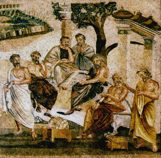 Ancient Academy/ Academy of Plato. Mosaic from Pompeii, now in the Museo Archeologico Nazionale (Naples). PAY ATTENTION ! This is a mirror image ! The correct view is this.--DenghiùComm (talk) 22:28, 31 January 2014 (UTC)